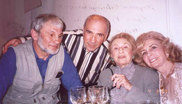 Four members